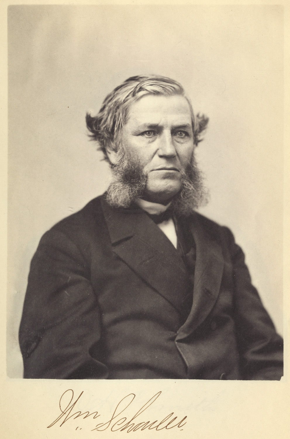 Photograph of American journalist and politician, William Schouler (1814-1872)